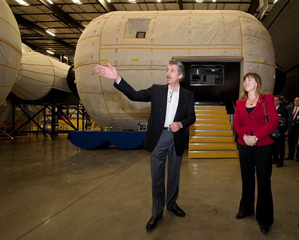 NASA Deputy Administrator Lori Garver is given a tour of the Bigelow Aerospace facilities by the company's President Robert Bigelow on Friday, Feb. 4, 2011, in Las Vegas. NASA has been discussing potential partnership opportunities with Bigelow for its inflatable habitat technologies as part of NASA's goal to develop innovative technologies to ensure that the U.S. remains competitive in future space endeavors. Image ID: 201102040002HQ